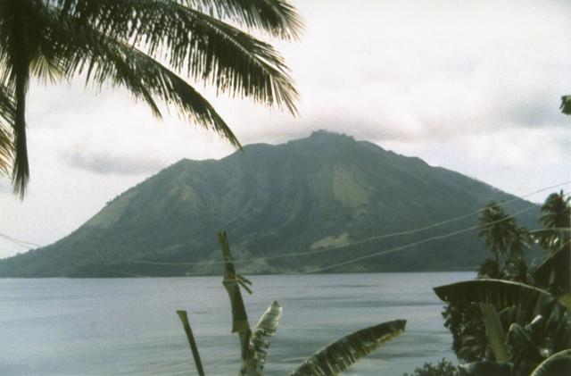 Ruang volcano, seen here from the nearby island of Tagulandang, forms a small 4 x 5 km island that is part of a chain of islands extending north from Sulawesi. Explosive eruptions, recorded in historical time since 1808, have been accompanied by pyroclastic flows and lava dome formation, and have frequently caused damage to populated areas.